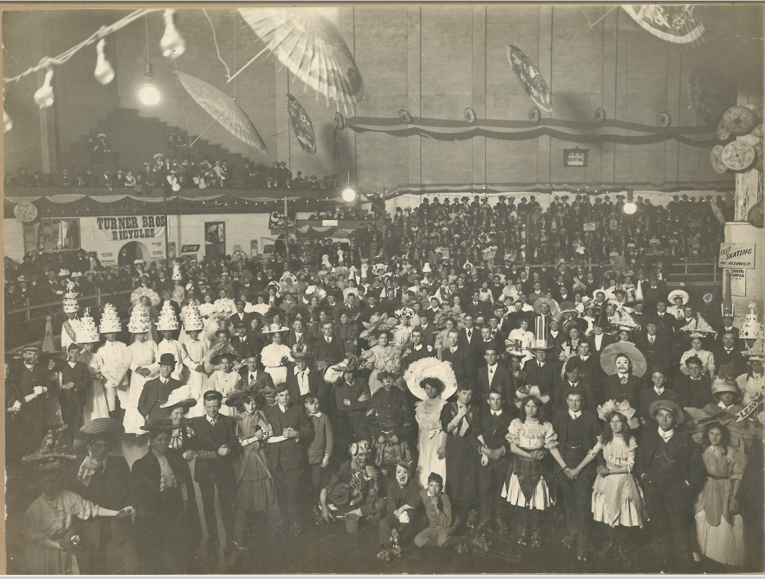 Carnival Skaters at the Olympic Roller Skating Rink 1909